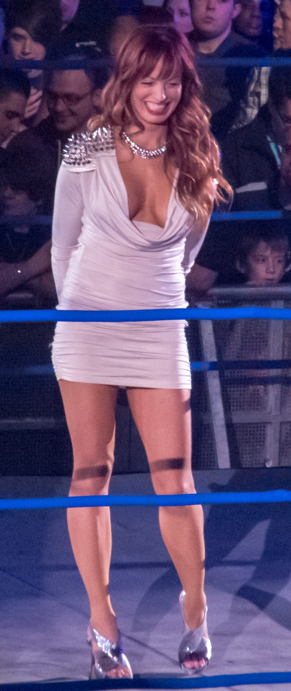 Christy Hemme at the Impact! TV Tapings in Wembley, England on January 26, 2013.